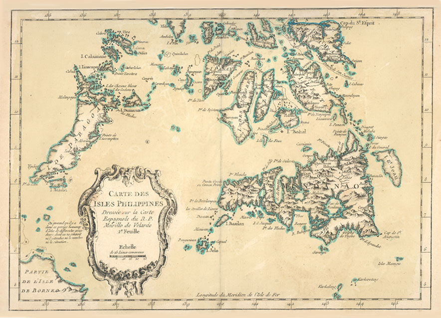 Oldest extant European map of Basilan Island